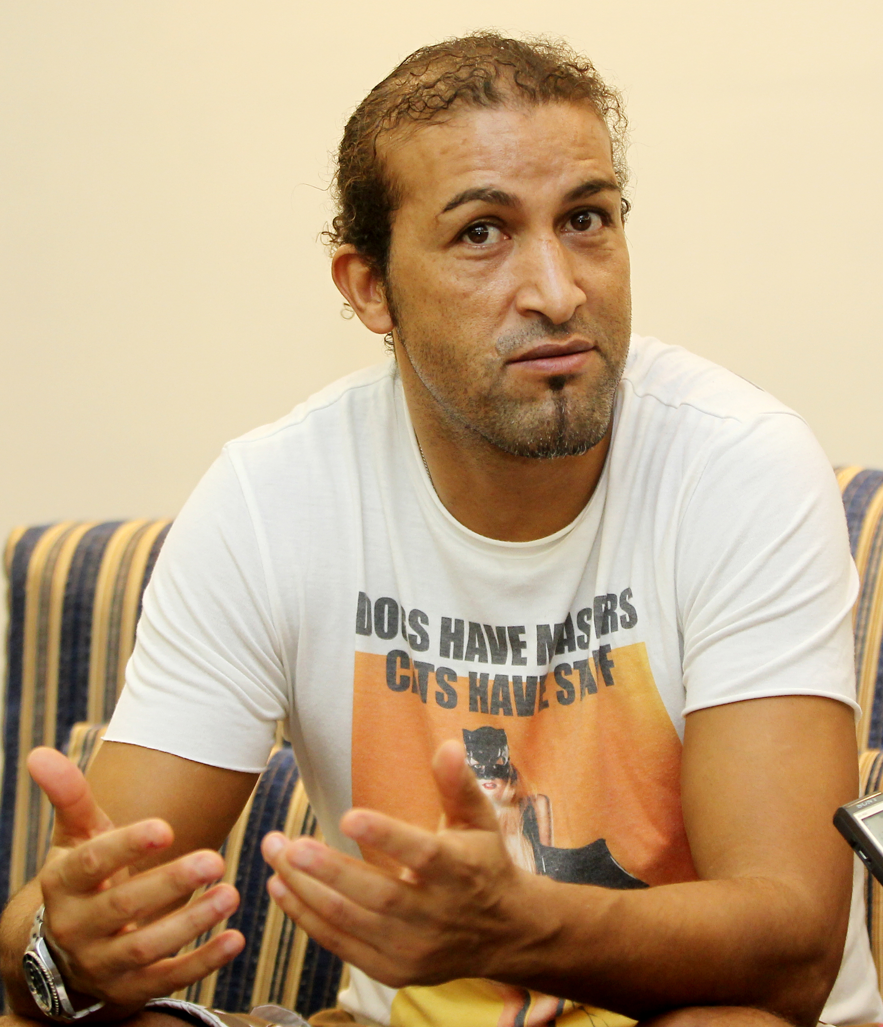 Morocco's former African Footballer of the Year Moustapha Hadji during an interview with Doha Stadium. Photo by Mohan.